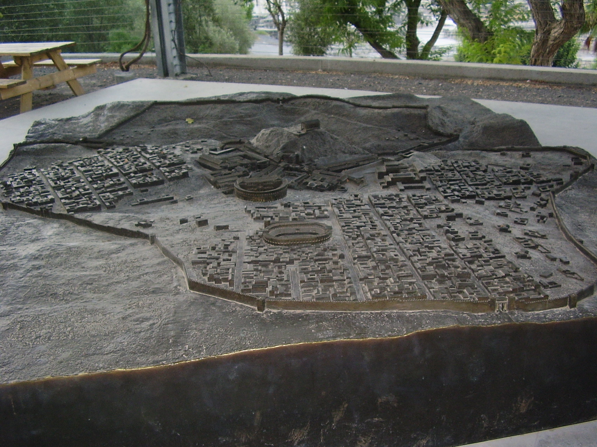 model of old bet she'an (scythopolis) מודל של בית שאן העתיקה